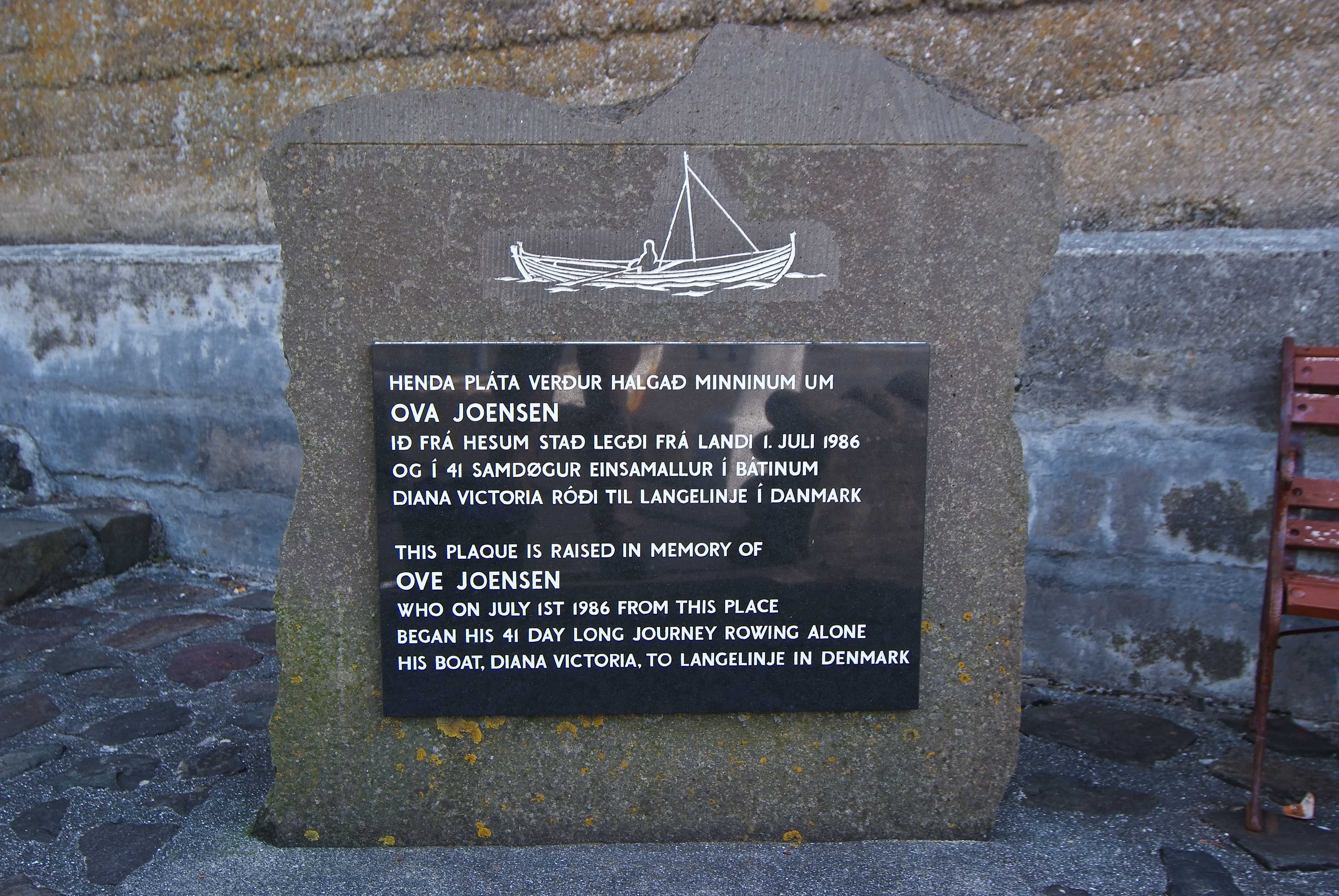 Memorial stone for Ove Joensen in Nólsoy, Faroe Islands